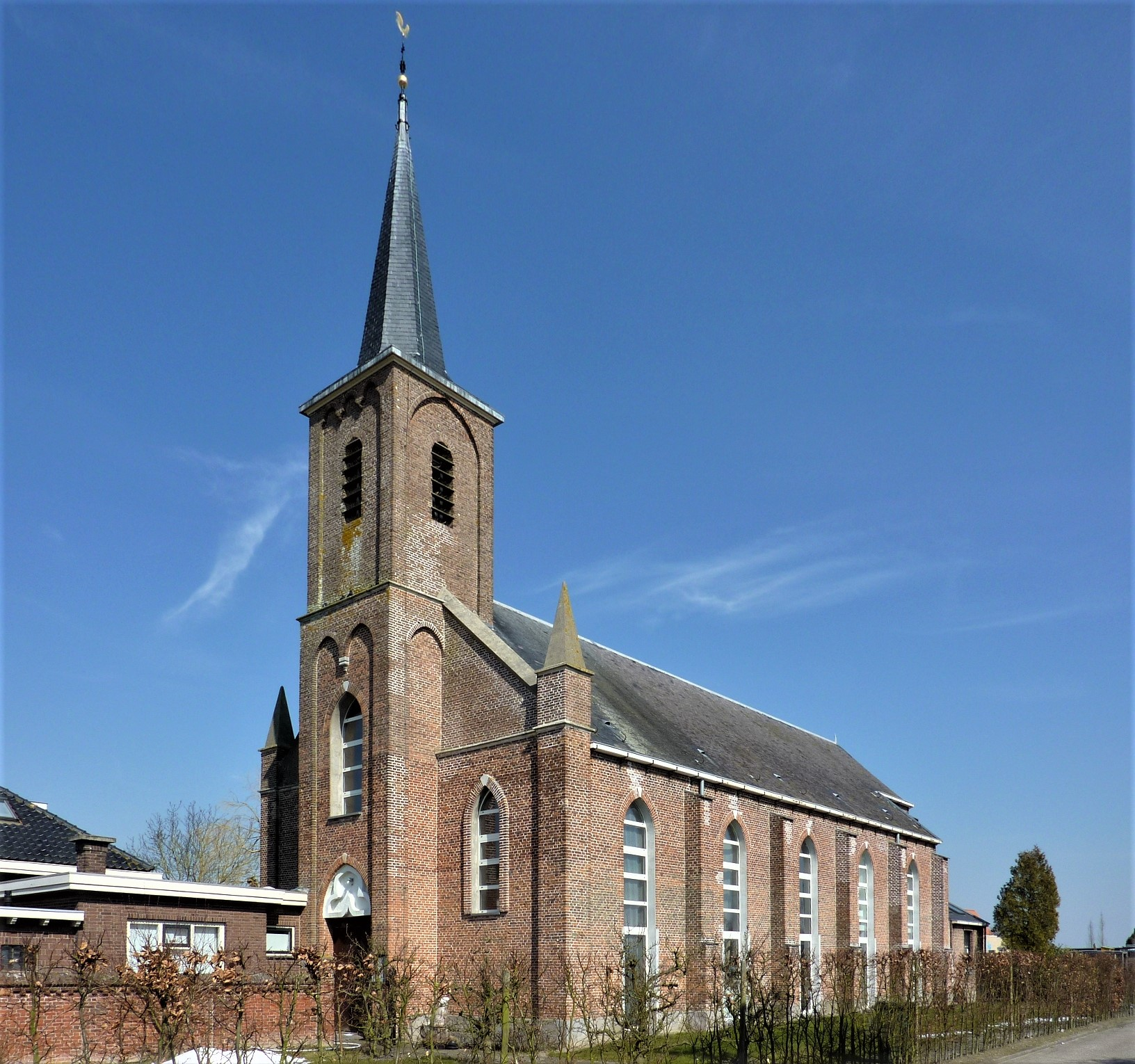 Sint Bavokerk (Groede)